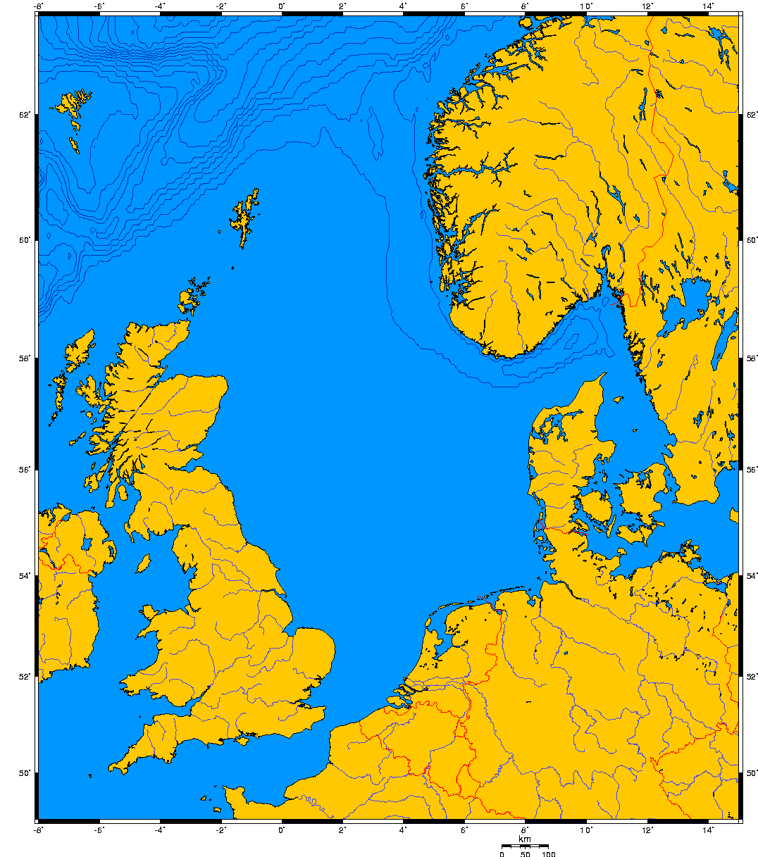 North Sea